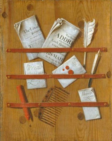 Newspapers, Letters and Writing Implements on a Wooden Board